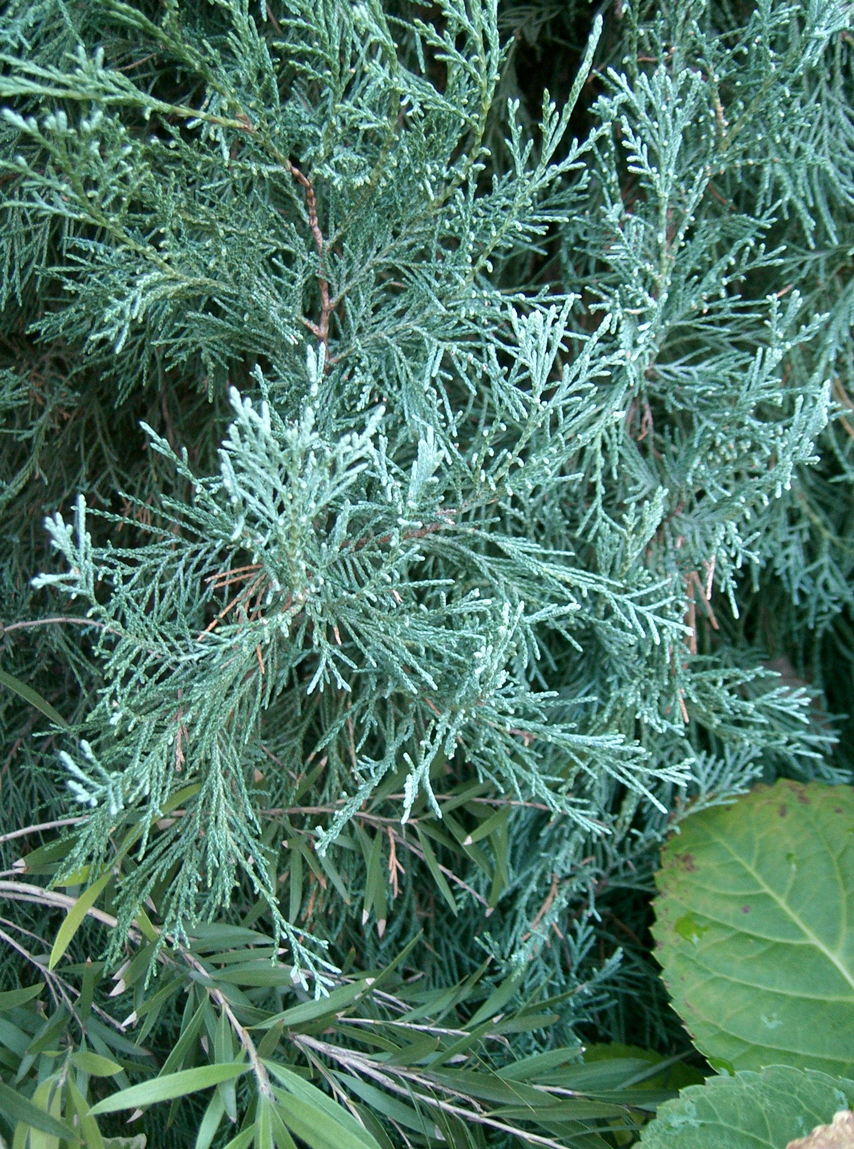 Juniperus scopulorum 'Blue Heaven', Osaka-fu, Japan